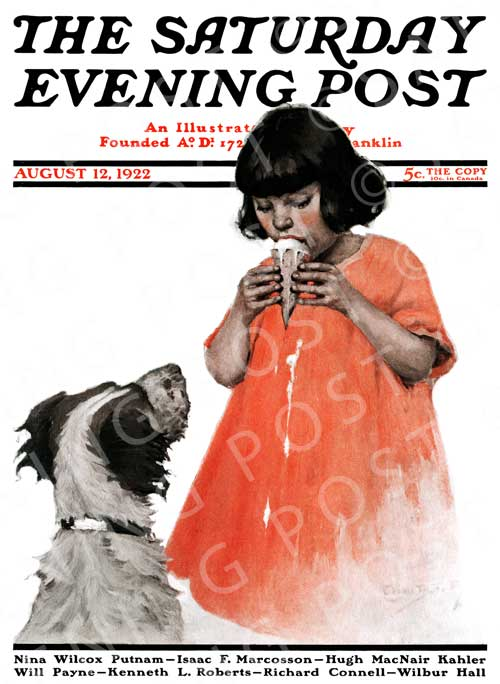 "Ice Cream Cone", by Ellen Pyle. Saturday Evening Post cover, August 12, 1922.